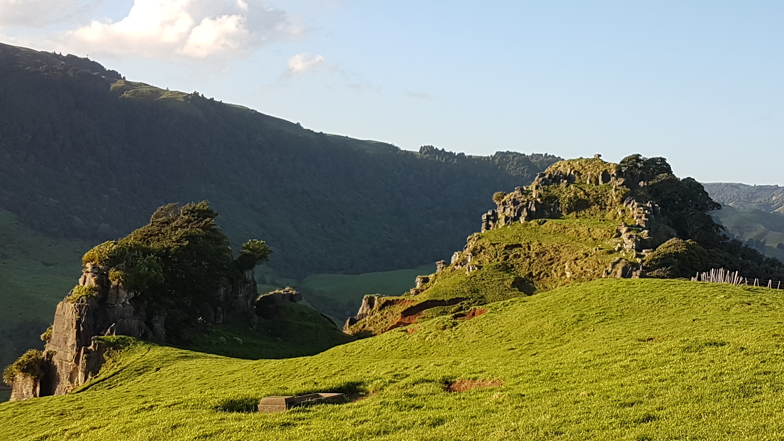 The back of Castle Craig Rock